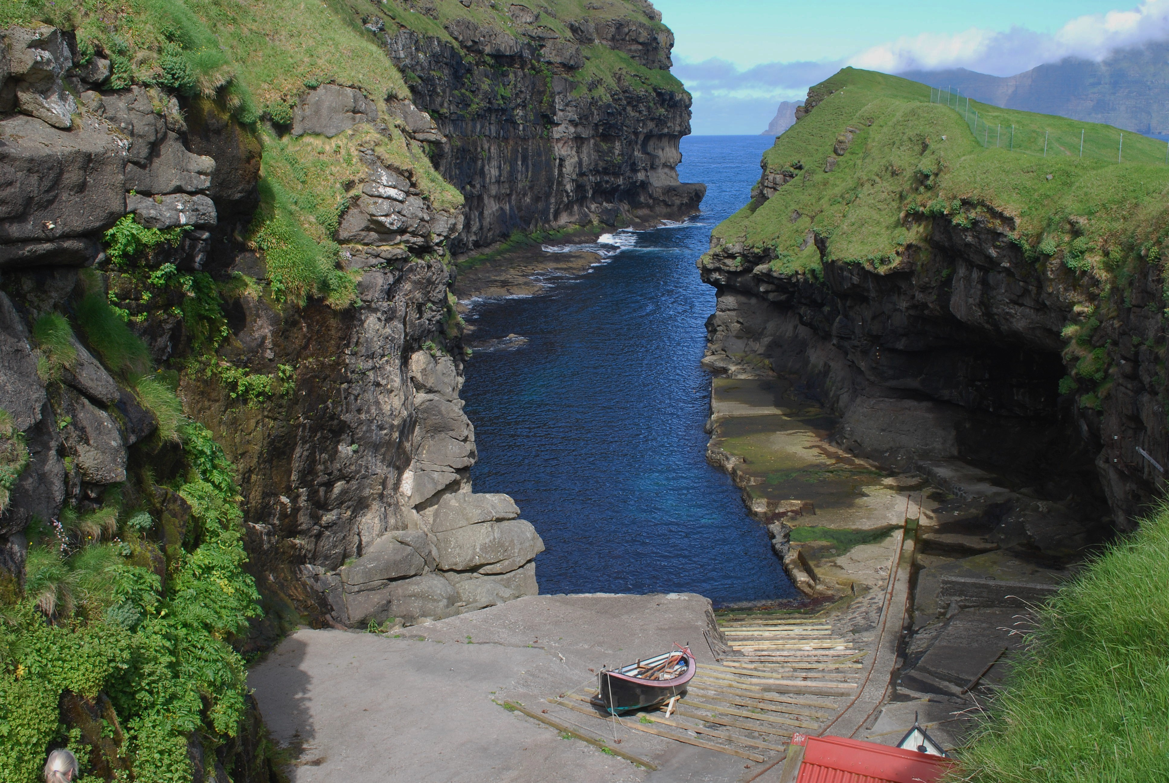 Gjógv has one of the best natural harbours in the Faroes. However, boats need to be pulled up on a ramp to be safe from the surf.